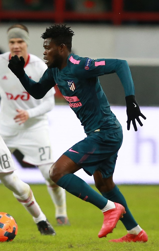 Thomas Partey